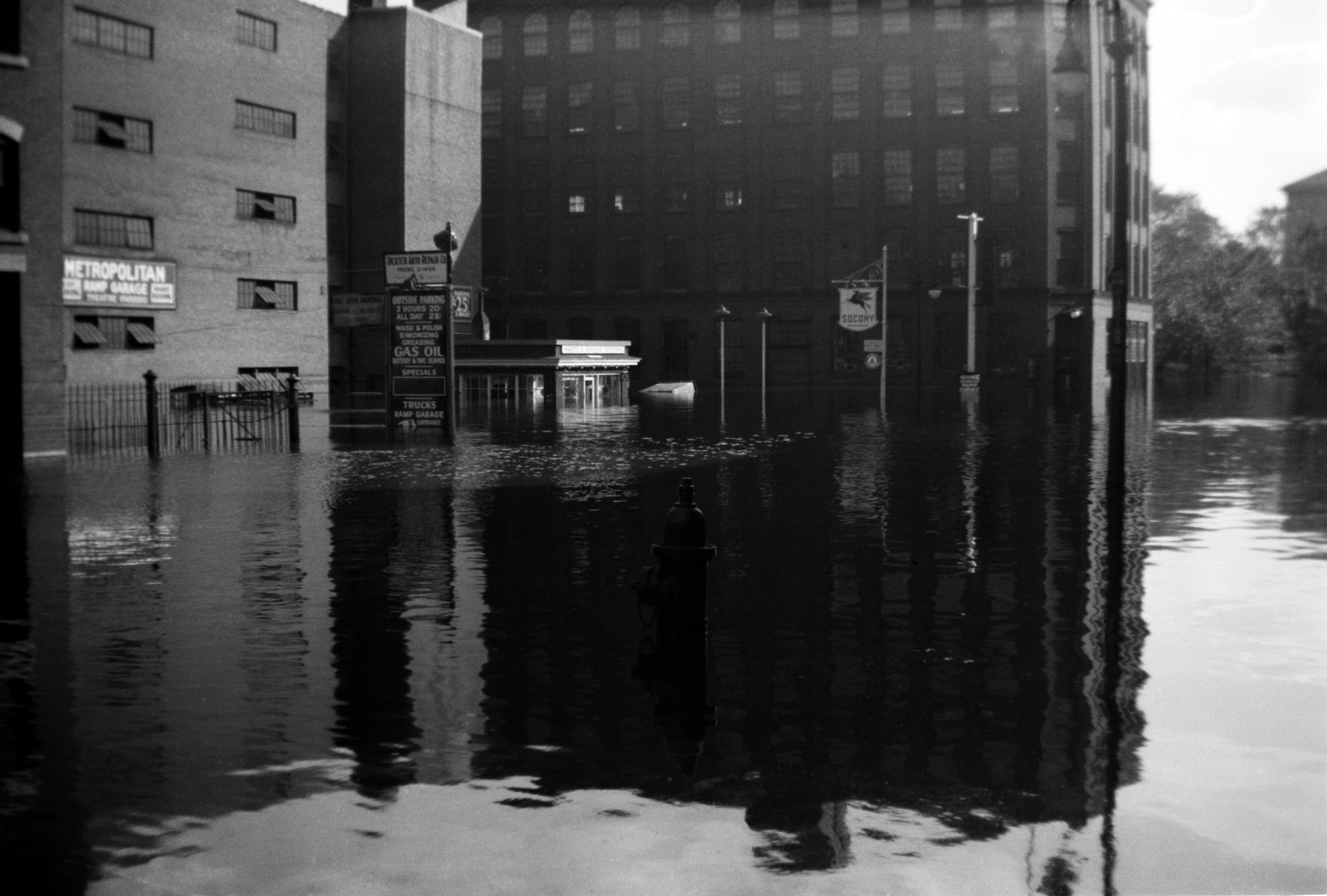 Downtown Hartford, CT during spring flooding in 1936.